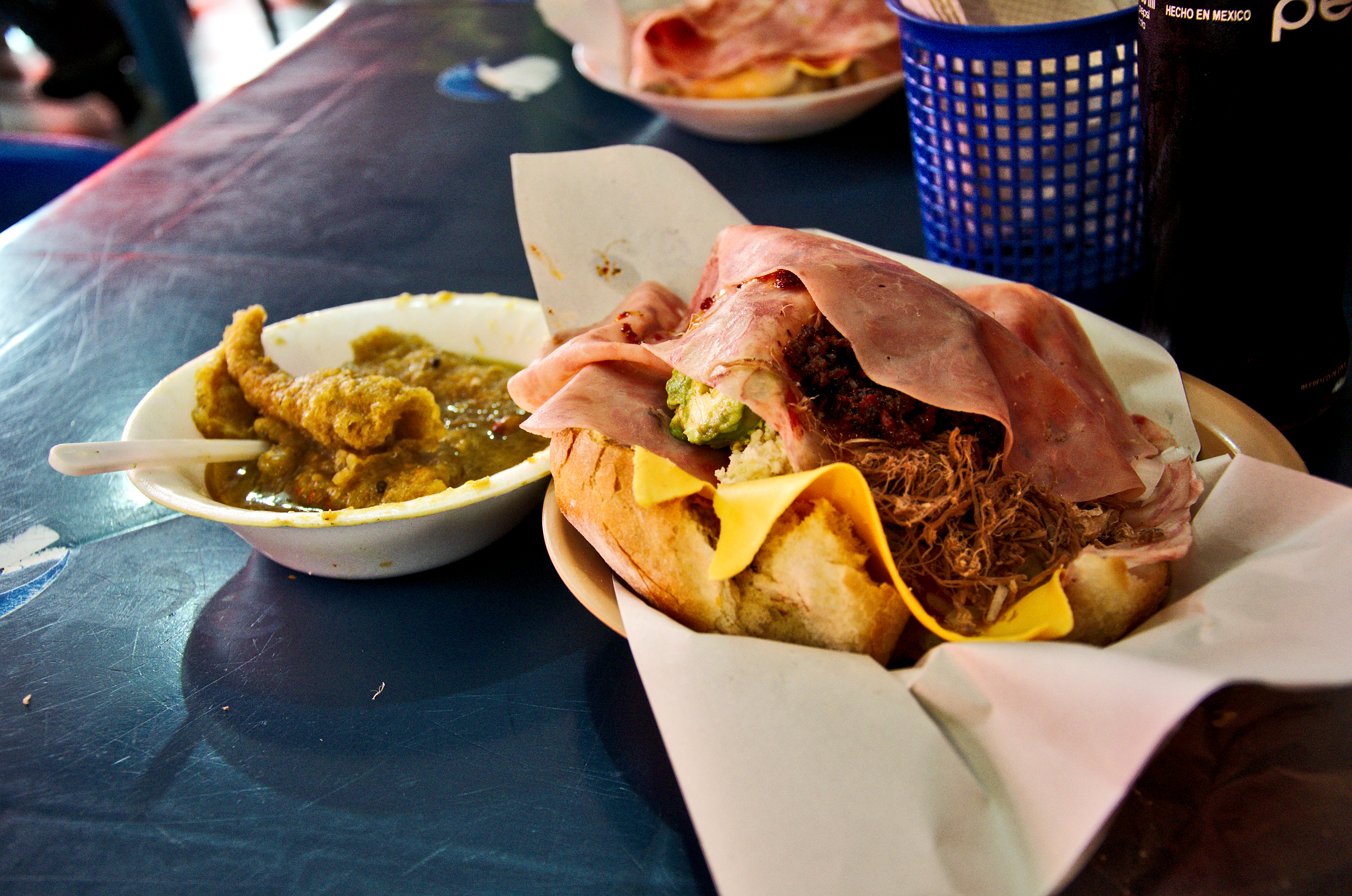 Read more about this photo at